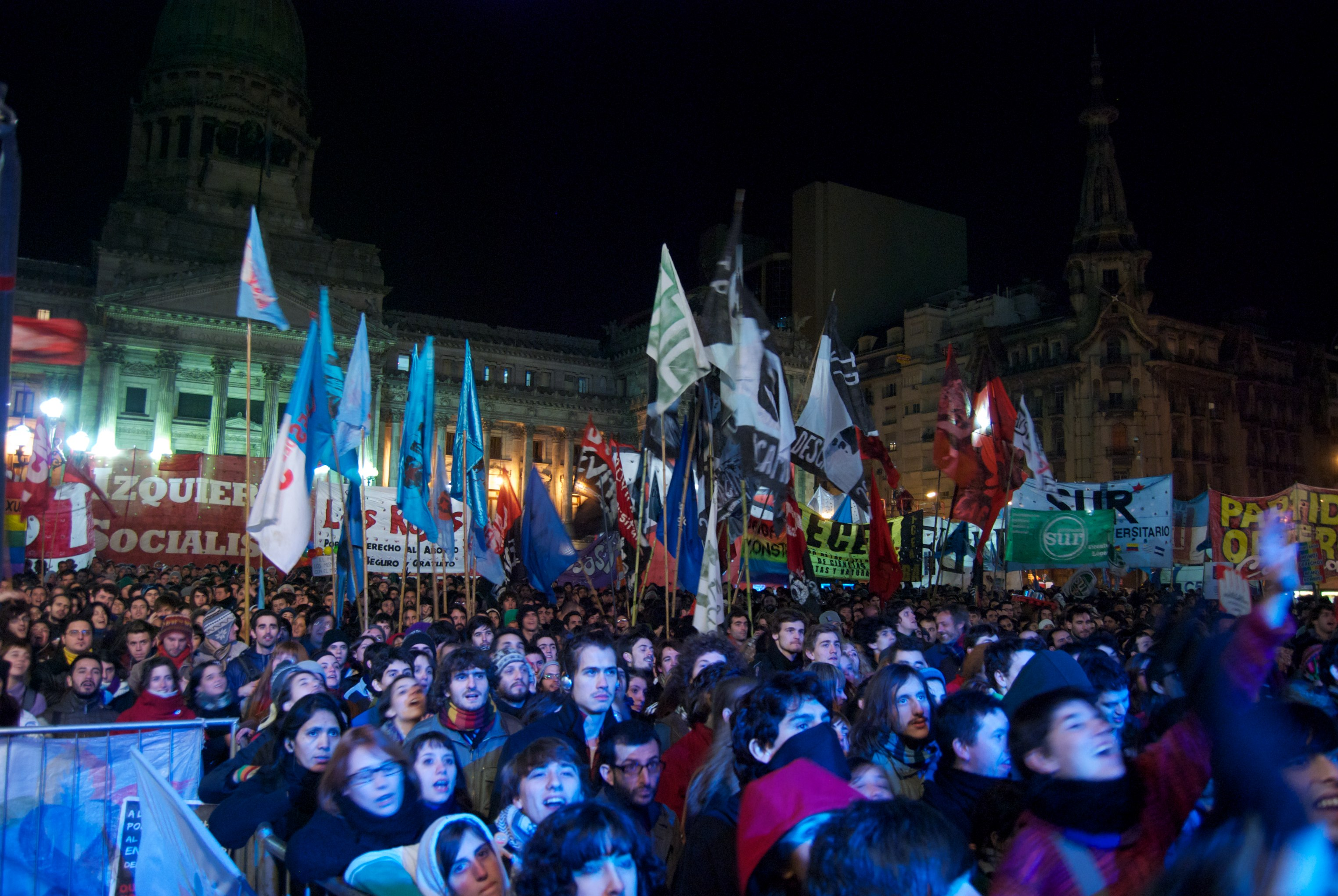 A crowd in front of the Argentine National Congress, waiting for the result of the debate on same-sex marriage in Argentina